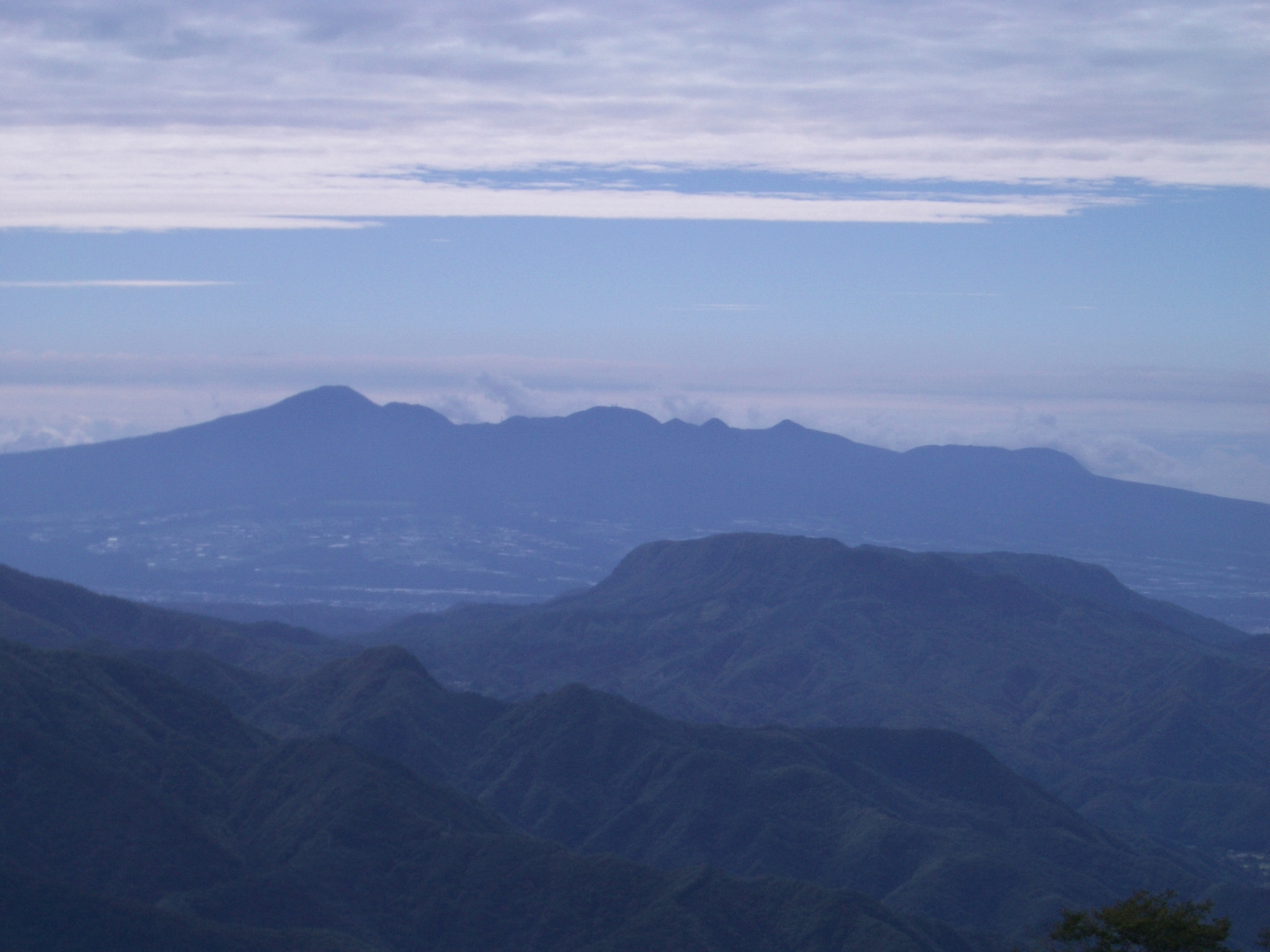 Mount Akagi (background) and Mount Mitsumine (right foreground) as seen from the northwest in Gunma Prefecture, Japan. Shot at Mount Tanigawa.